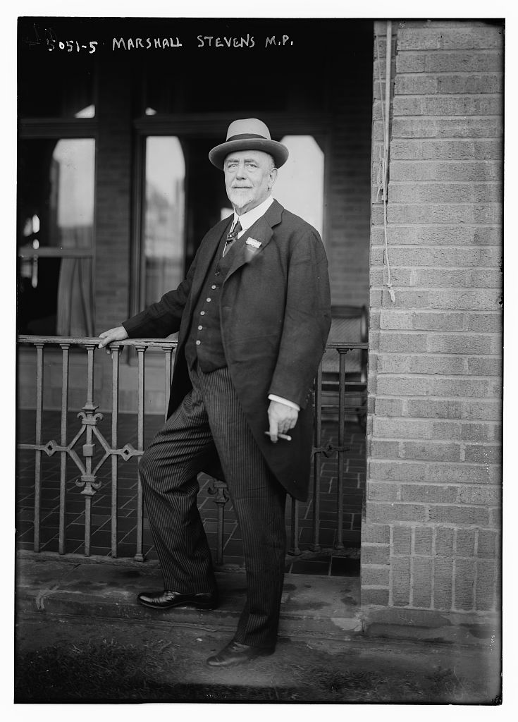 Marshall Stevens in 1919 at the International Trade Conference